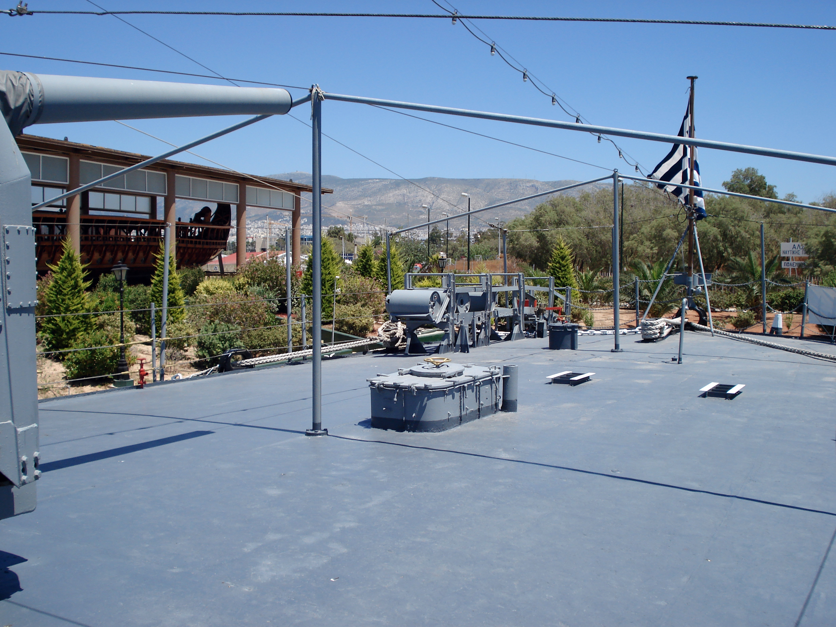 Destroyer Velos D16 formerly USS Charrette DD581 as floating museum photo taken by me in 3 June 2006. View to stern.The aft 127 mm (5") gun and depth charge track can be seen.